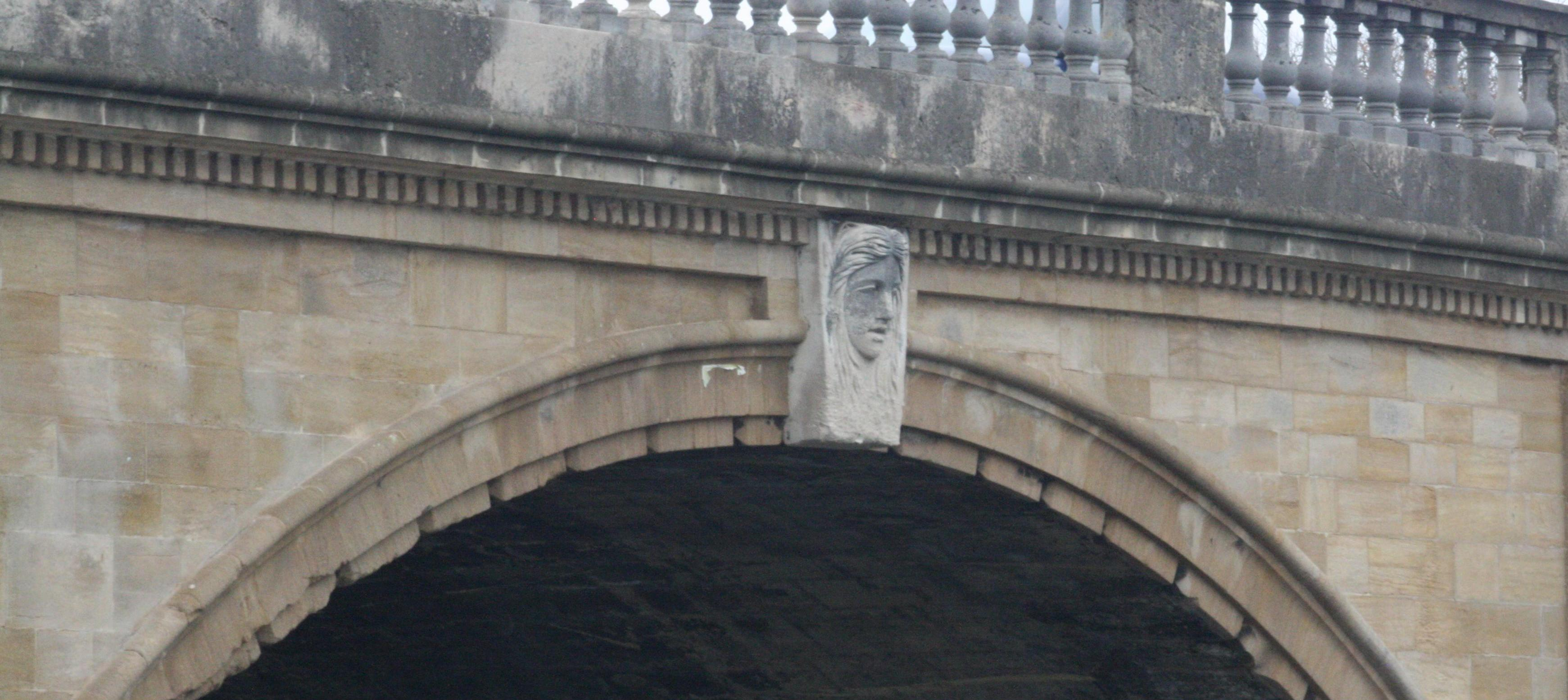 Sculptures of goddess Isis by Anne Seymour Damer at the upstream keystone of the central arch of the Henley bridge. Henley-on-Thames, UK